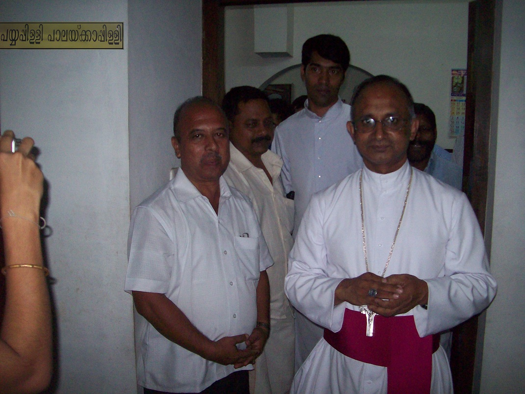 Mar George Madathikandathil, bishop of Syro-Malabar Catholic diocese of Kothamangalam.